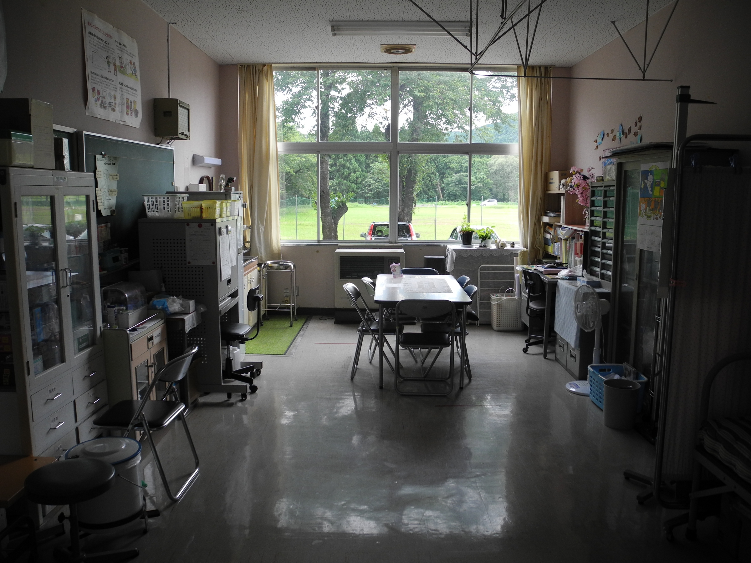 Nurse's office, as viewed from the doorway. Hitane Elementary School. Shimo-Hitane, Chokai, Yurihonjo, Akita, Japan.